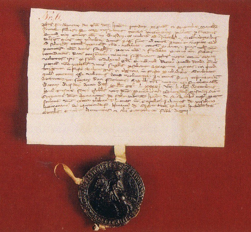 Certificate to the first mention of a mayor of Dresden from 1 October 1292 (City Archives Dresden)